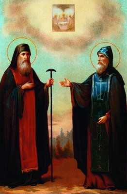 Irinarh of Solovki & Eleazar of Anzer.